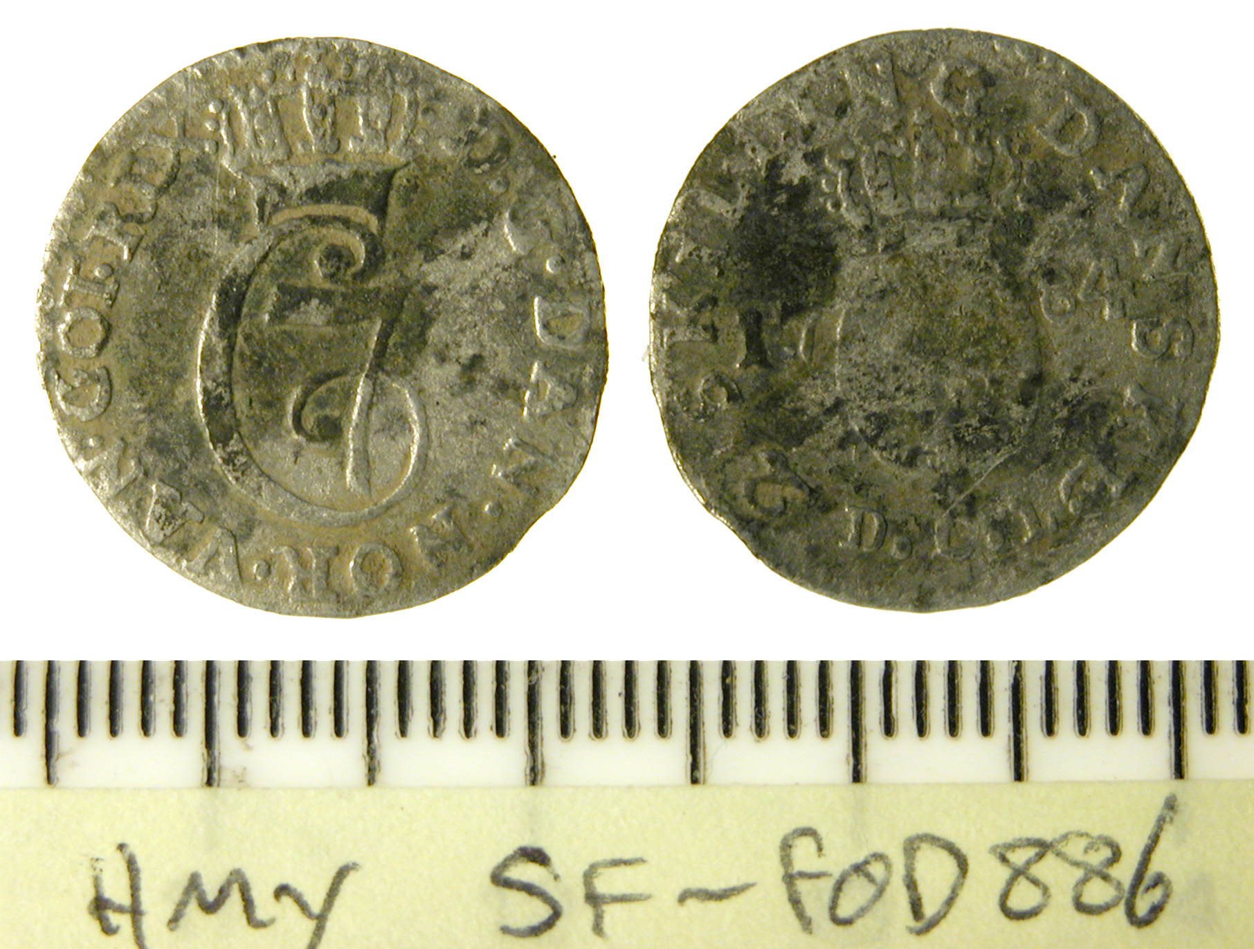 A silver Danish 2 skilling coin of Christian VII, dated on the coin to 1784 AD.